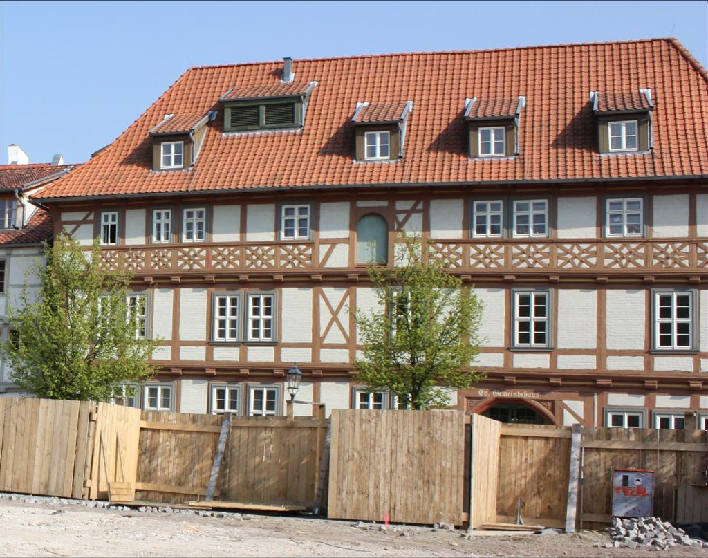 Building in Quedlinburg / Germany